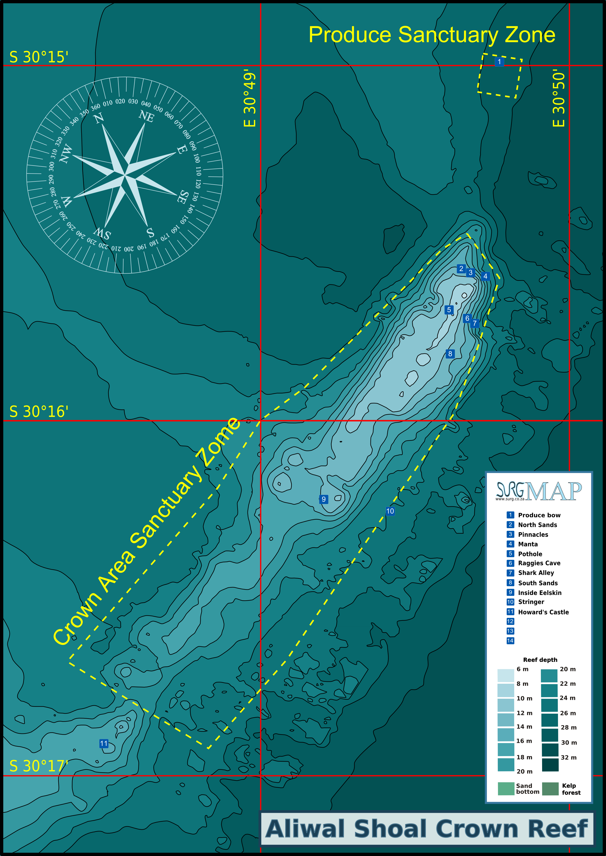 Aliwal Shoal Crown Reef Map (Bathymetry)